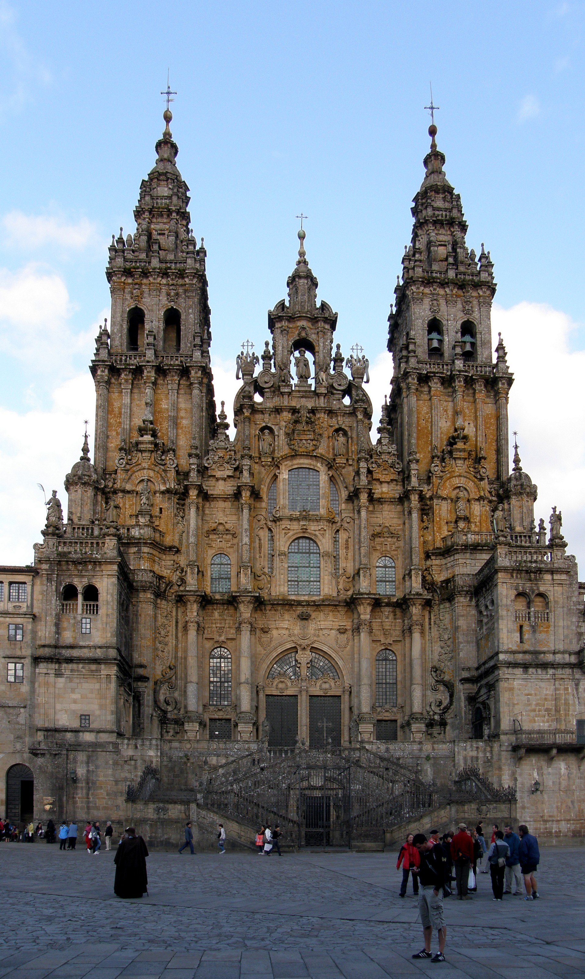 Cathedral of Santiago de Compostela